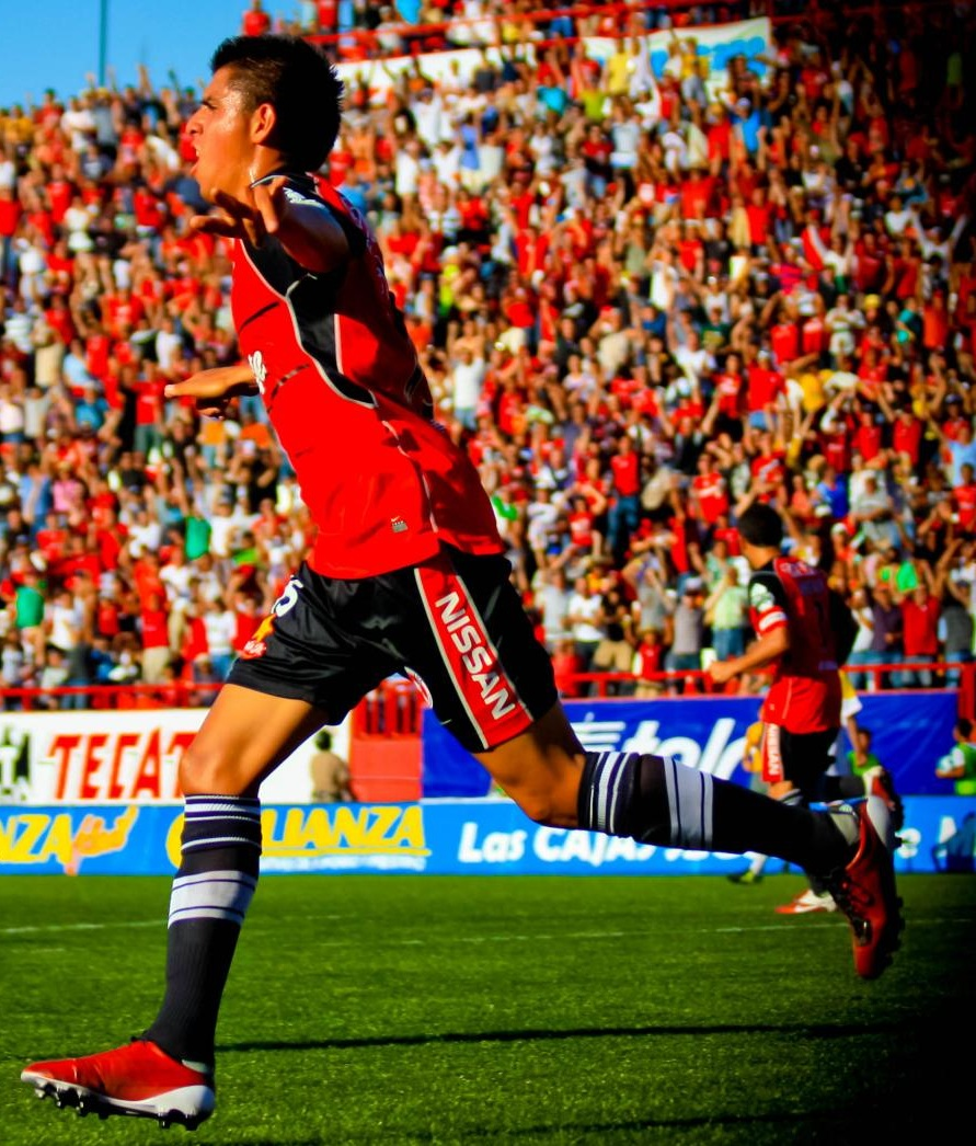 Tijuana player Joe Corona